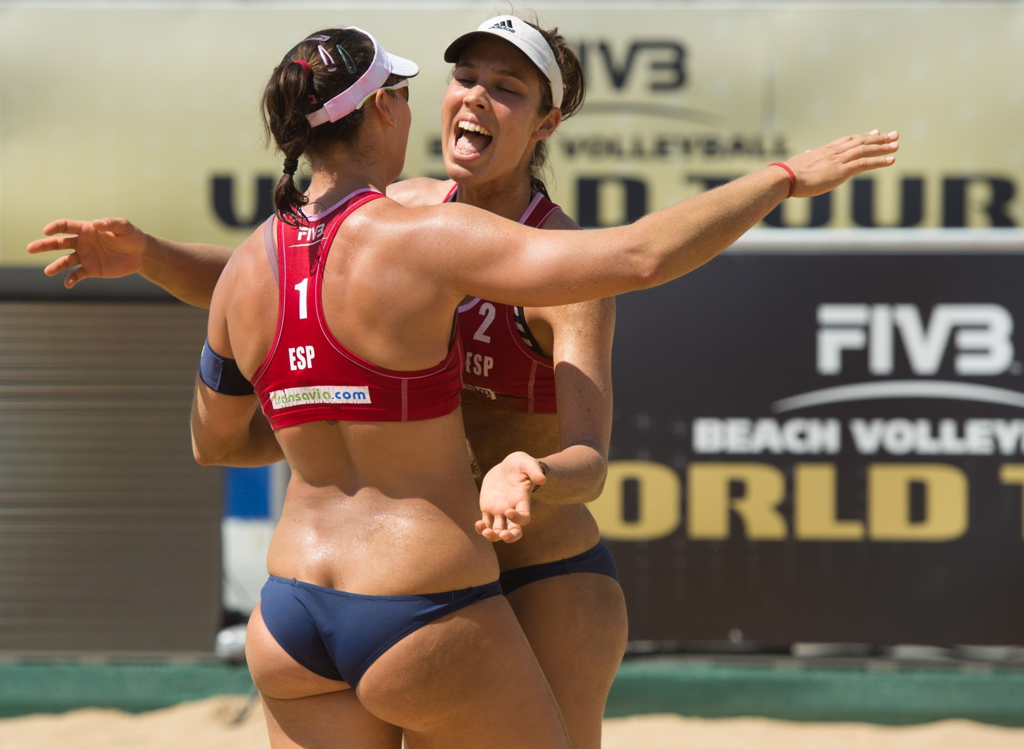 Liliana Fernandez (left) and Elsa Baquerizo of Spain's beach volleyball team FIVB Transavia Grand Slam, Main Draw Beach Stadion Scheveningen, The Hague